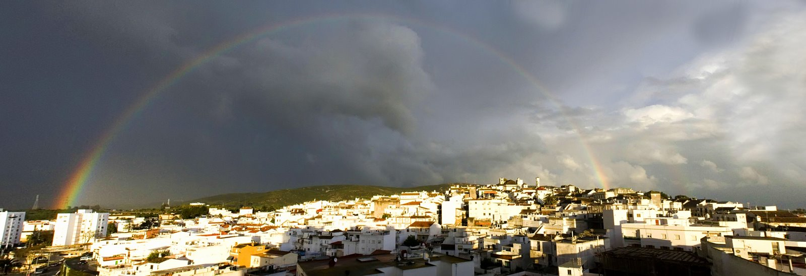 Rainbow over San Roque